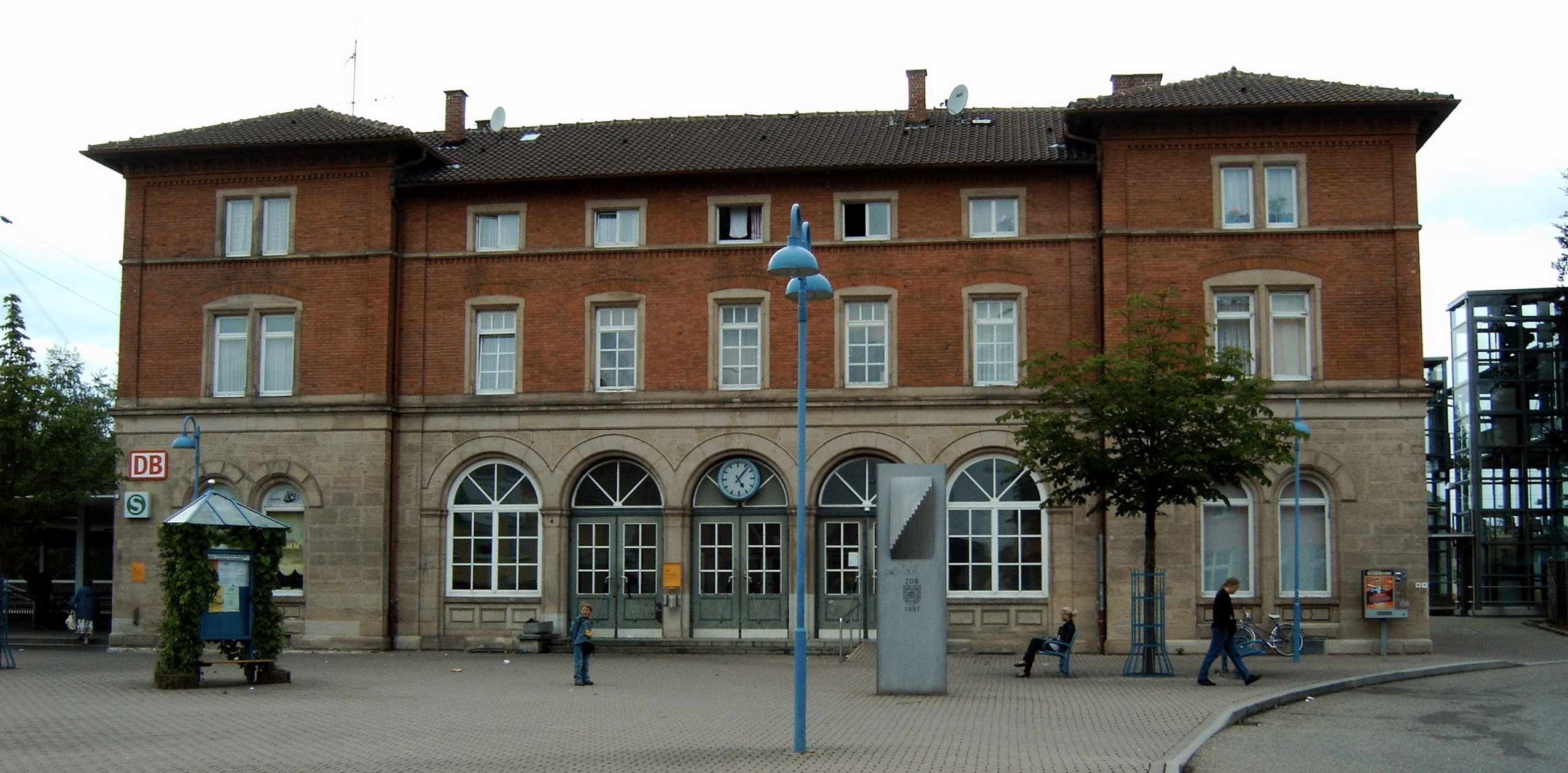 Winnenden train station